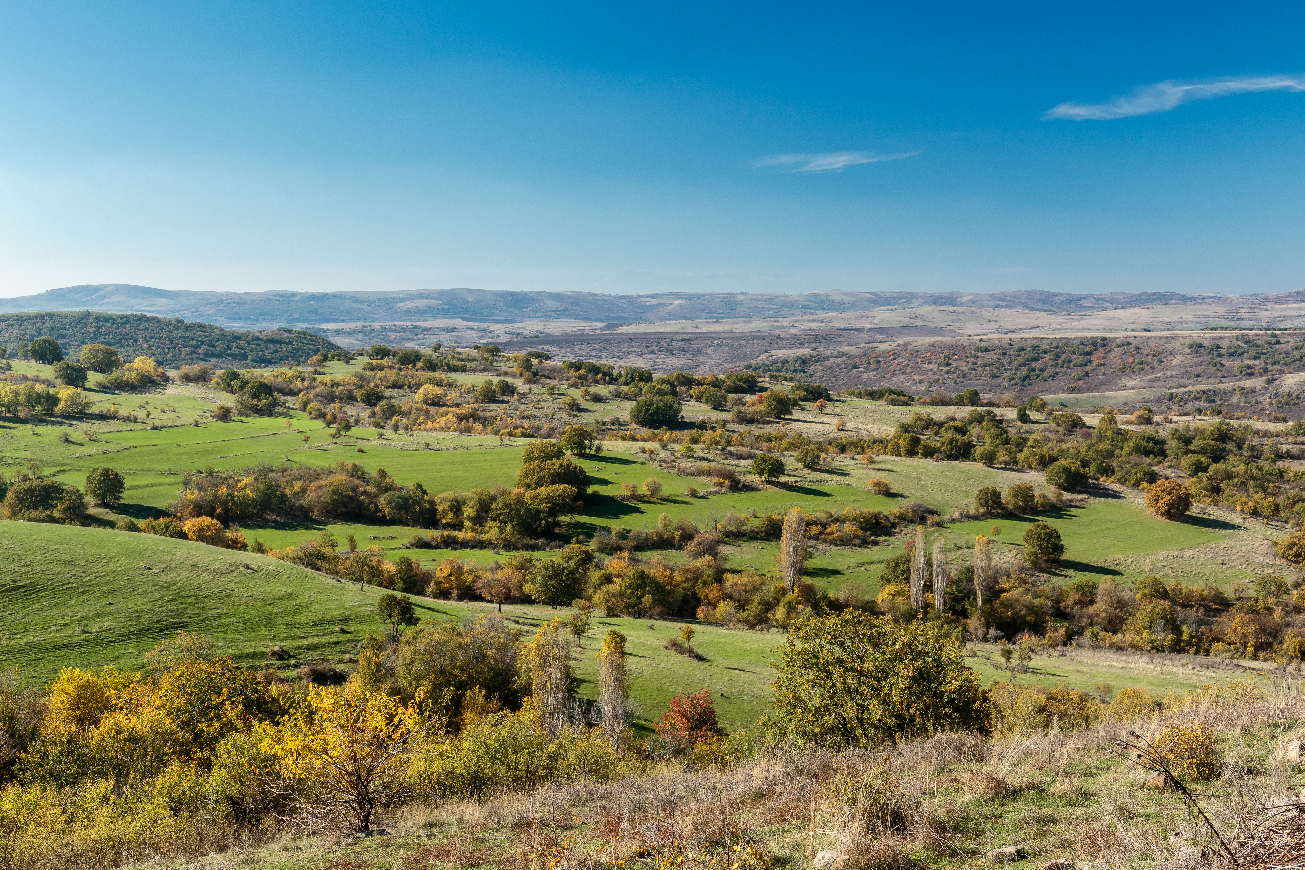 Landscape in the Zletovo-Probištip Region of Macedonia